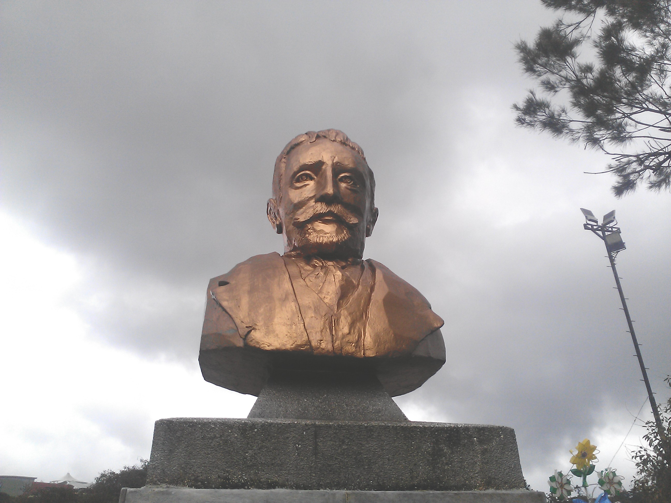 A statue of Burnham.